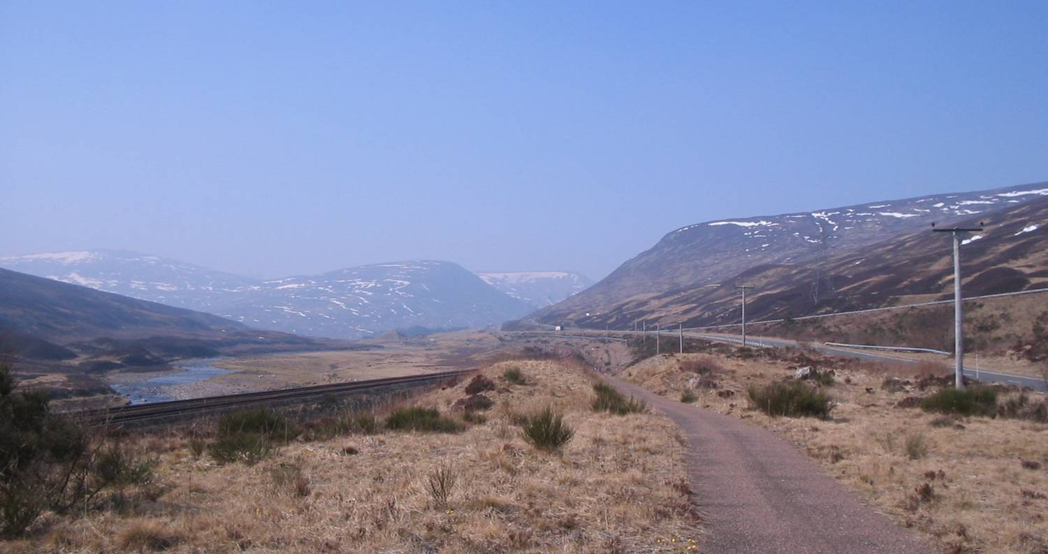 Pass of Drumochter looking north, south of Dalnaspidal Lodge. The A9 right, Highland Main Line left, and cyclepath National Cycle Network route 7 centre.